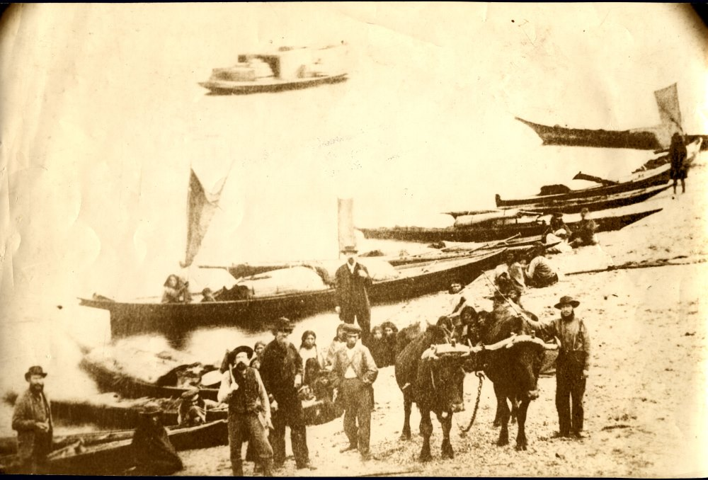 A group of Native Americans and settlers pose on a beach in Mukilteo, Washington. The Native Americans, mostly women and children, sit in their beached canoes or huddle together on the beach. The settlers, along with a pair of yoked oxen, stand on the beach facing the photographer. At the time this photograph was taken, Mukilteo was the temporary seat of Snohomish County, pending an election in 1862. This image is on page 75 of William Whitfield's History of Snohomish County, published in 1926.